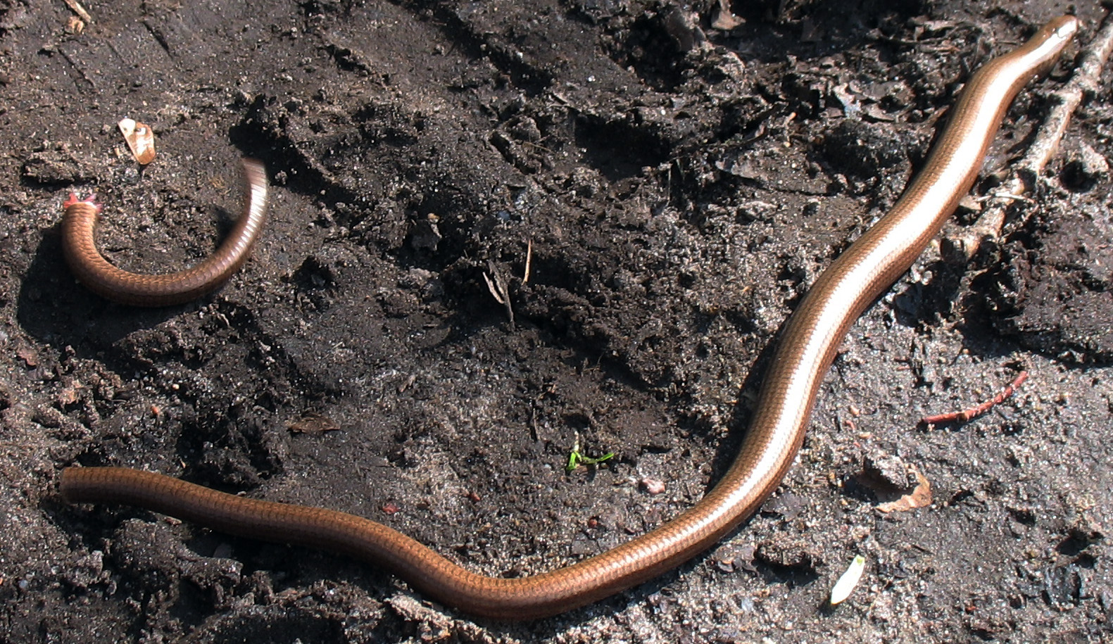 Anguis fragilis (Slow worm) rejected tail